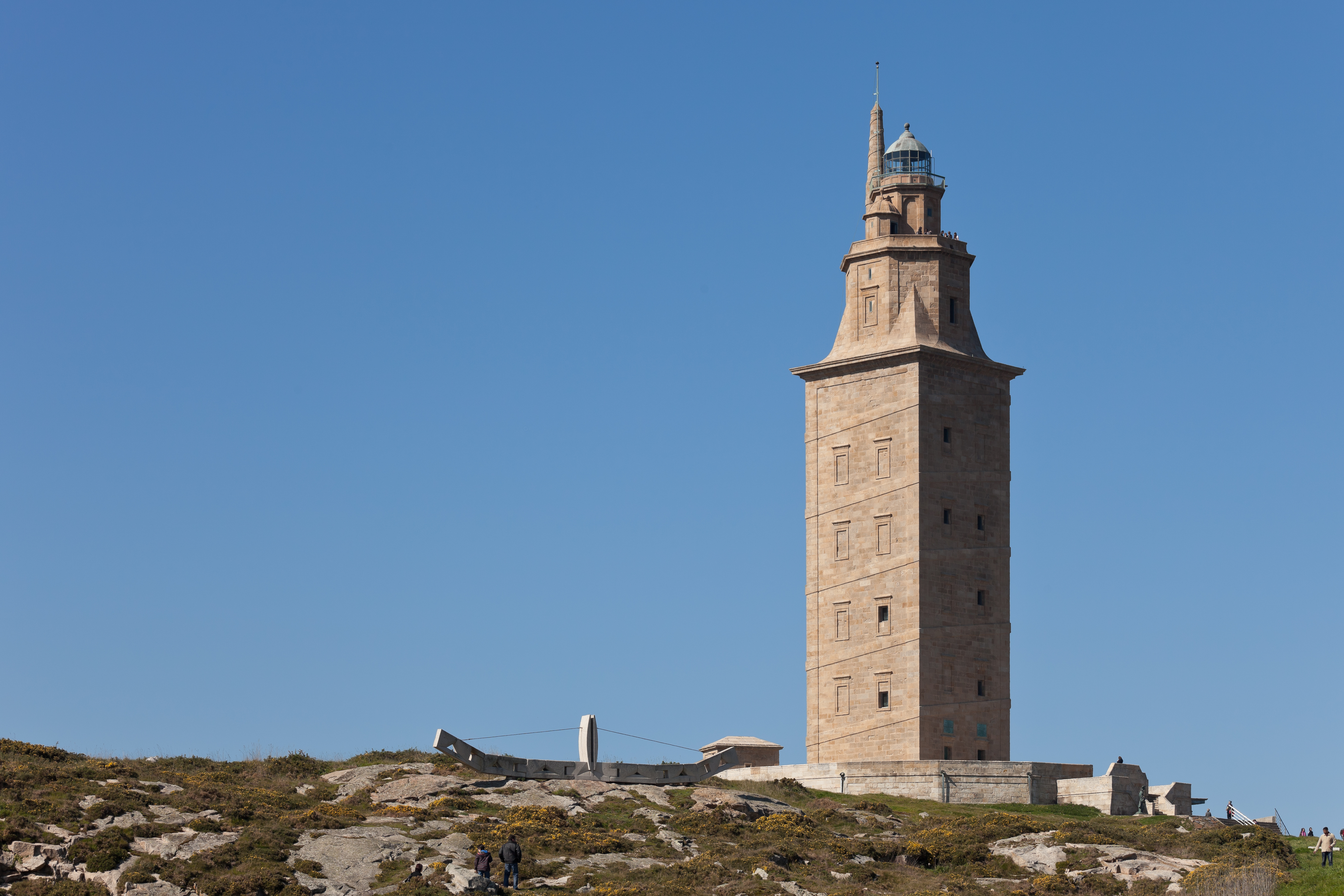 Tower of Hercules, A Coruña, GaliciaGalego: Torre de Hércules, A Coruña, Galicia